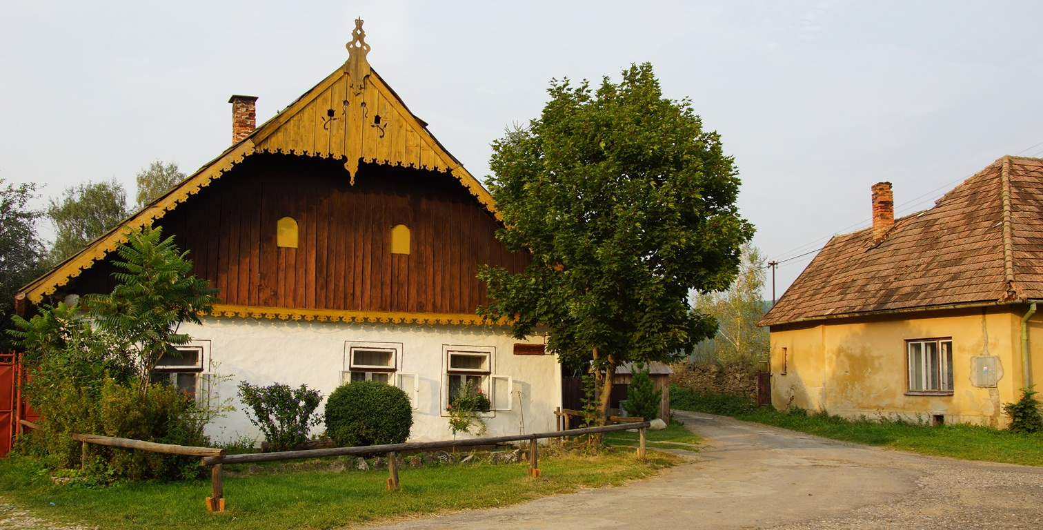 Bušovce. Regional still houses.